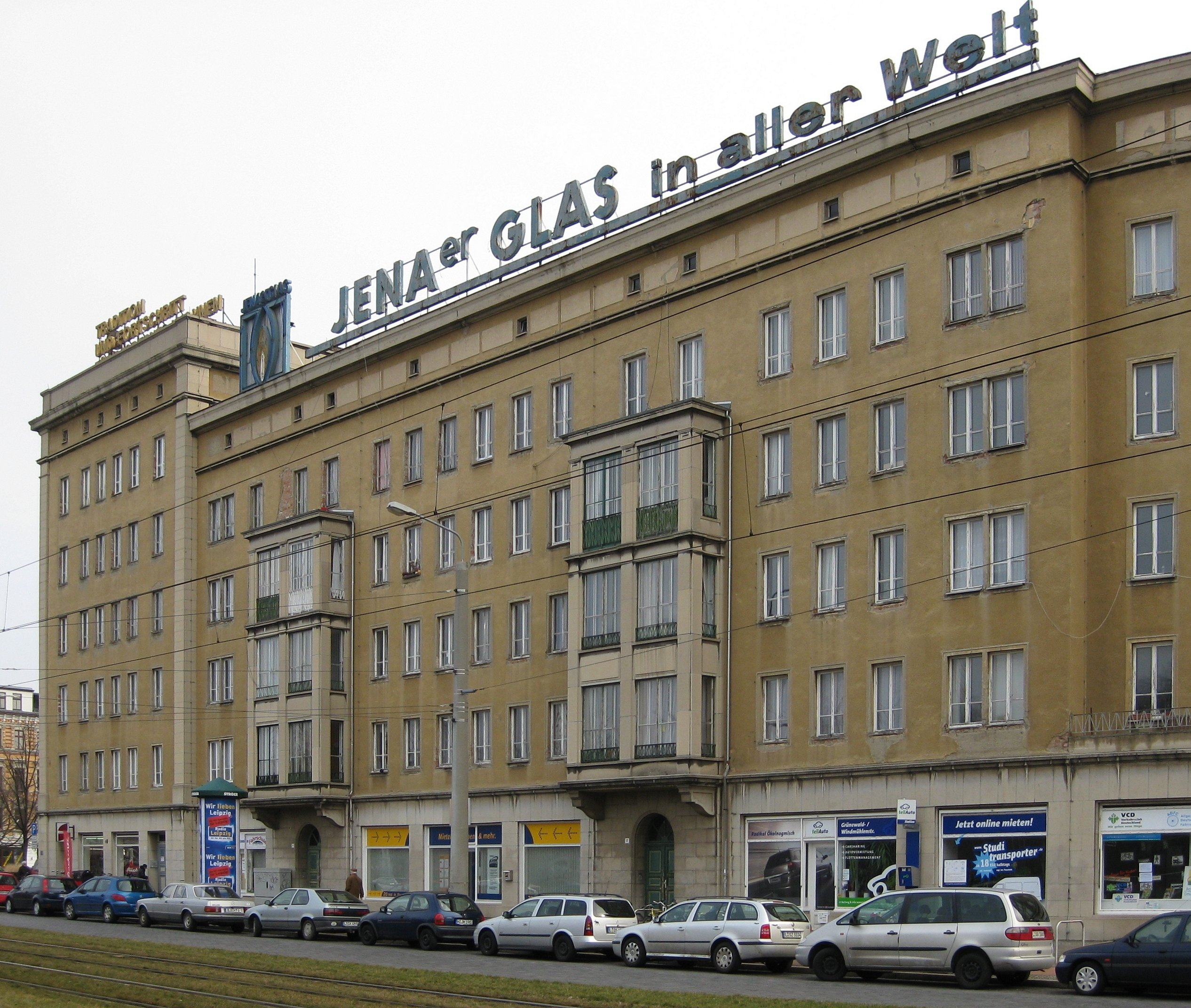 apartment building with typical GDR-comercial for heat-resistant glass made in Jena/GDR, taken in Leipzig/Germany, Grünewaldstraße (nearby Corner Windmühlenstr.)